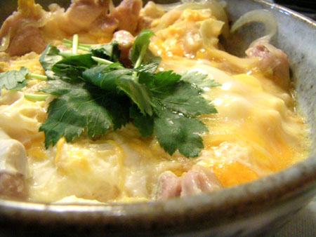 chicken and egg bowl親子丼